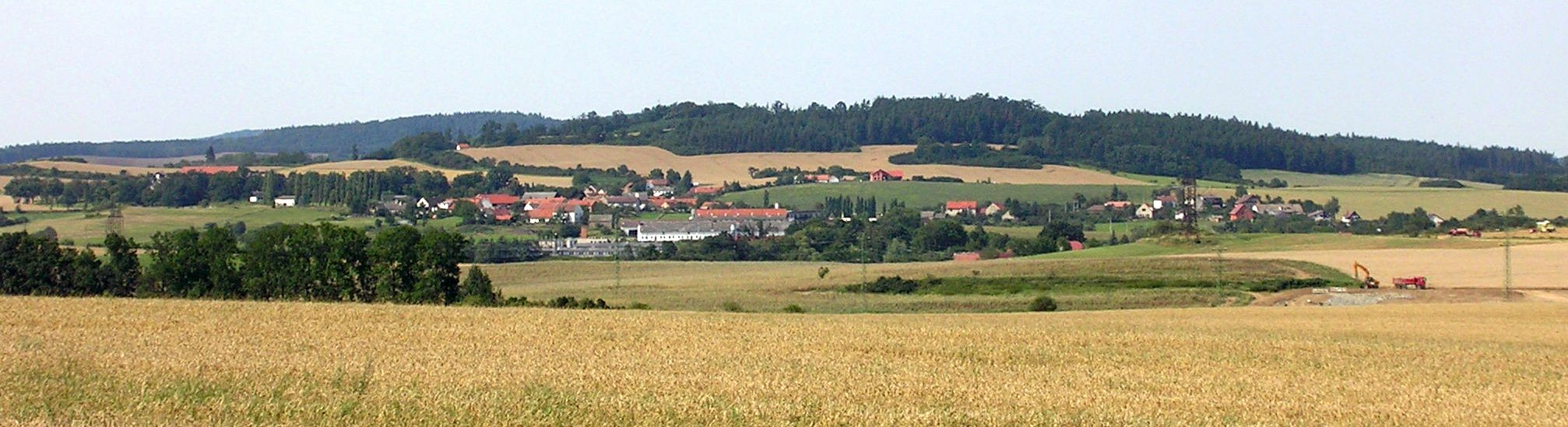 Kňovice, Příbram District, Central Bohemian Region, the Czech Republic. - Google Maps - Google Earth